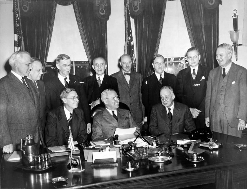 President Harry S. Truman, Dr. Vannevar Bush and members of the National Defense Research Committee. Seated are Dr. James Conant, President of Harvard University; President Truman; and Dr. Alfred N. Richards, Head of Office of Scientific Research and Development. Standing are Dr. Karl T. Compton, President of MIT; Dr. Lewis H. Weed, National Academy of Sciences; Dr. Vannevar Bush, Director, Office of Scientific Research and Development; Dr. Frank B. Jewett, New York; Dr. J. C. Hunsaker, MIT; Dr. Roger Adams, University of Illinois; Dr. A. Baird Hastings, Harvard Medical School; and Dr. A. R. Dochez, Columbia University.